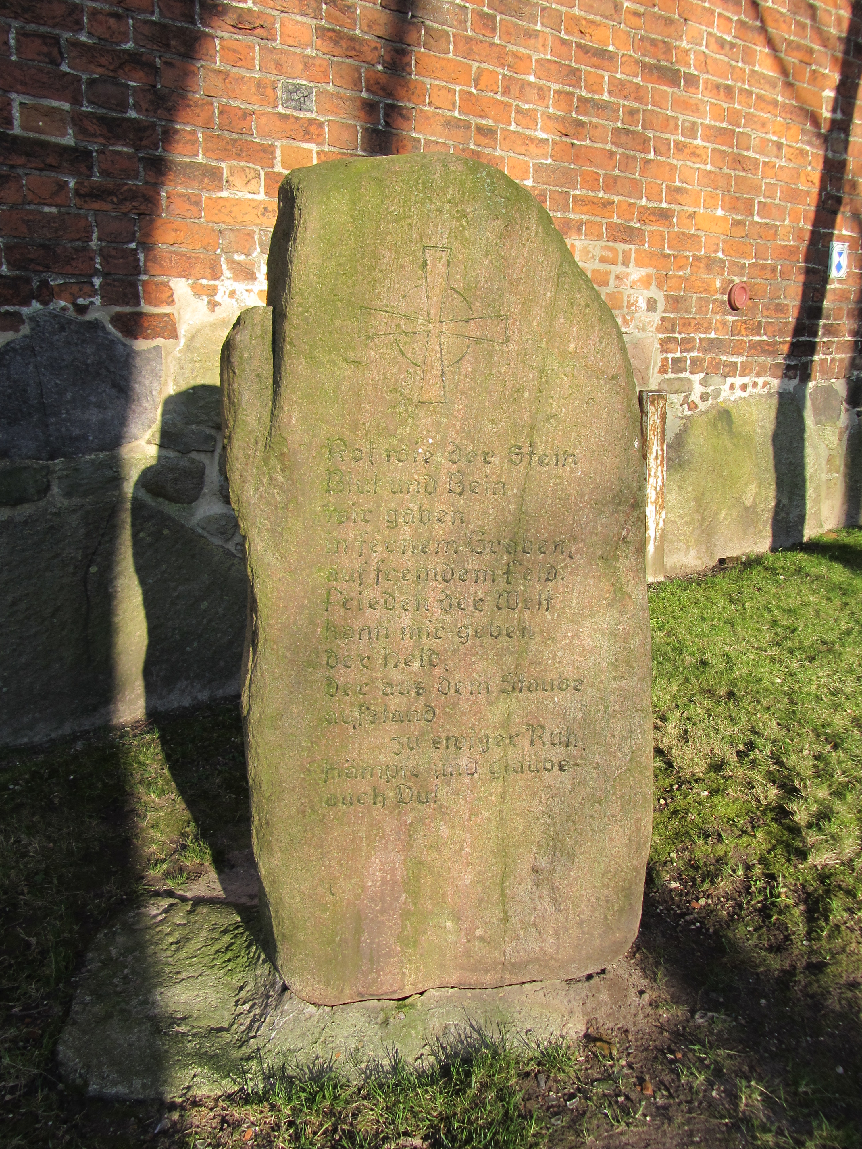 Memorial at church in Neubukow, district Rostock, Mecklenburg-Vorpommern, Germany